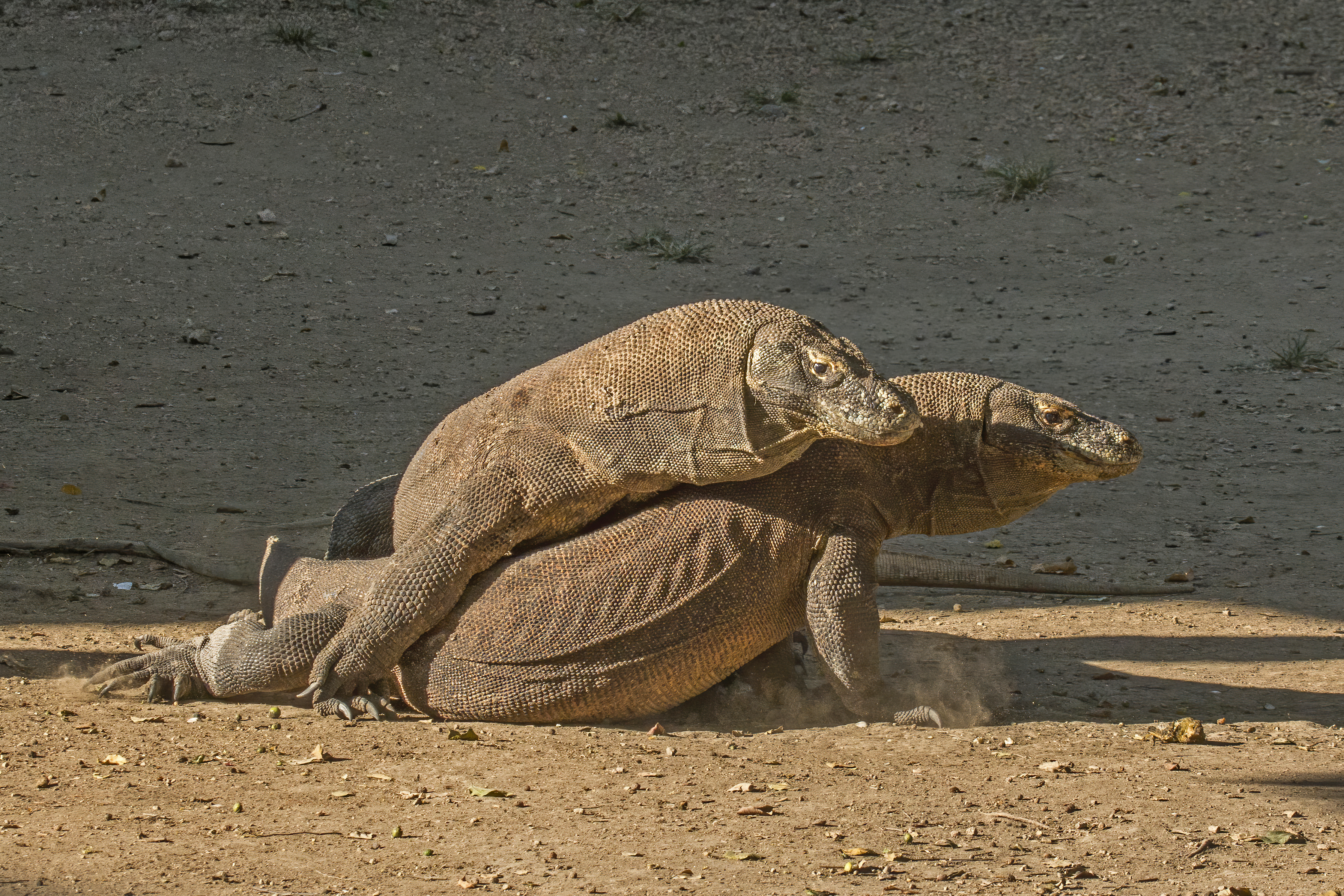 Komodo dragons (Varanus komodoensis), males fighting on Rinca, Komodo National Park, Indonesia